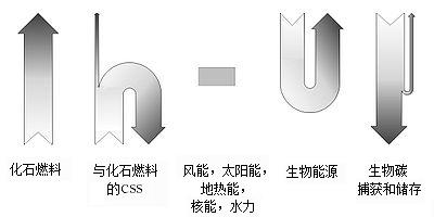 Carbon flow schematic of different energy source, including systems with carbon capture and storage